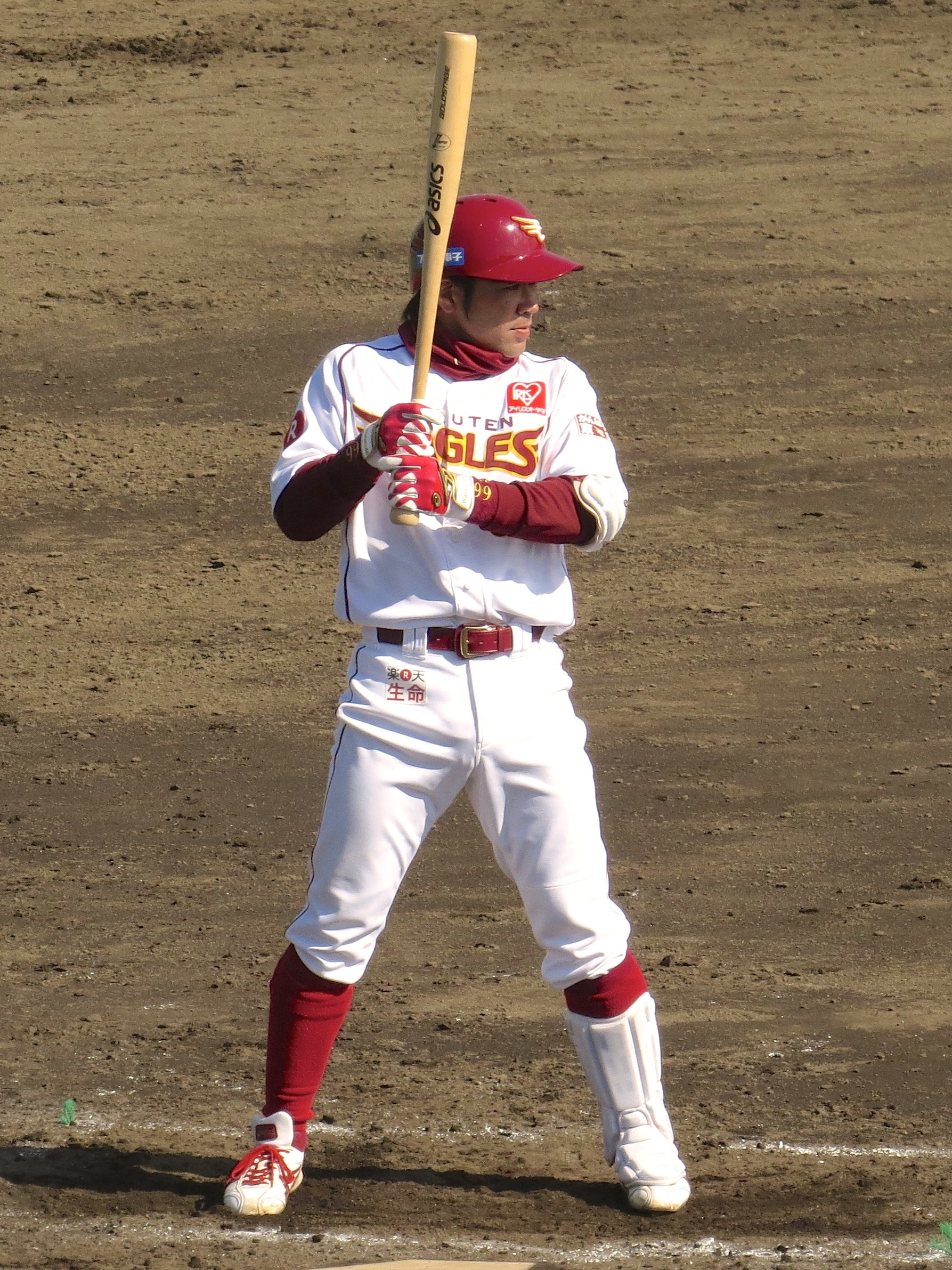 Wataru Nishimura, infielder of the Tohoku Rakuten Golden Eagles, at Saitama Municipal Urawa Baseball Stadium.